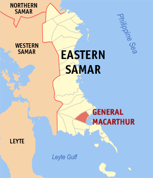 Map of Eastern Samar showing the location of General MacArthur